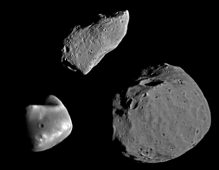 This montage shows asteroid 951 Gaspra (top) compared with Deimos (lower left) and Phobos (lower right), the moons of Mars.